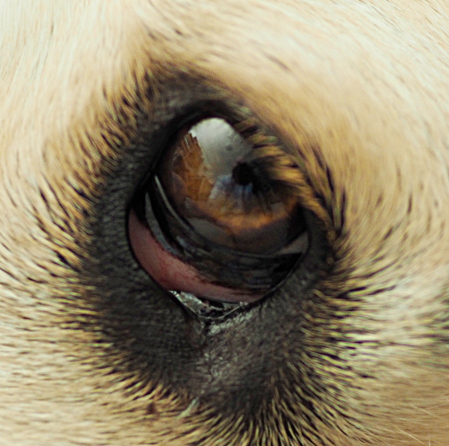 Third eyelid in a dog’s eye